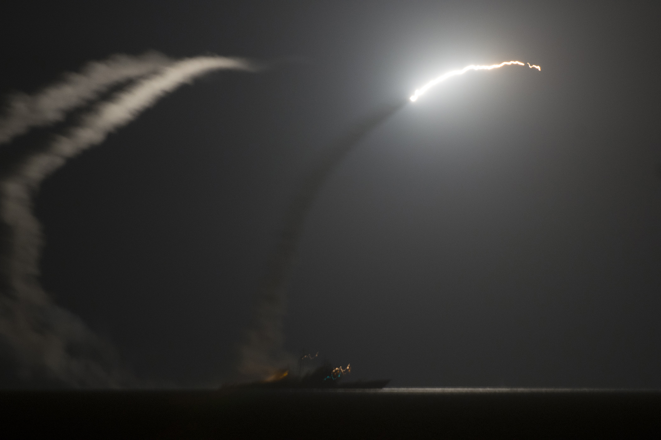 The U.S. Navy guided-missile cruiser USS Philippine Sea (CG-58) launches RGM-109 Tomahawk cruise missiles. On 23 September 2014, 47 Tomahawk missiles were fired by Philippine Sea and USS Arleigh Burke (DDG-51), which were operating from international waters in the Red Sea and Persian Gulf, against Islamic State of Iraq and the Levant (ISIL) targets in Syria in the vicinity of Ar-Raqqah, Deir ez-Zor, Al-Hasakah and Al-Bukamal.